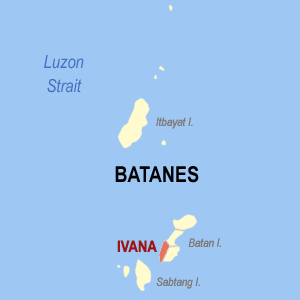 Map of Batanes showing the location of Ivana